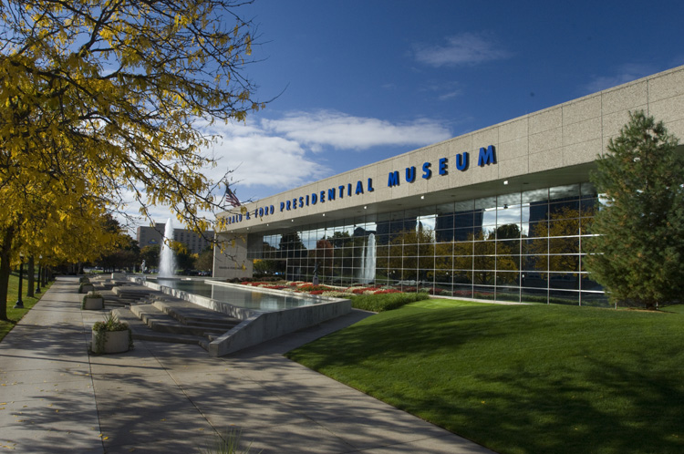 Outside of the Gerald R. Ford Presidential Museum, Grand Rapids, Michigan